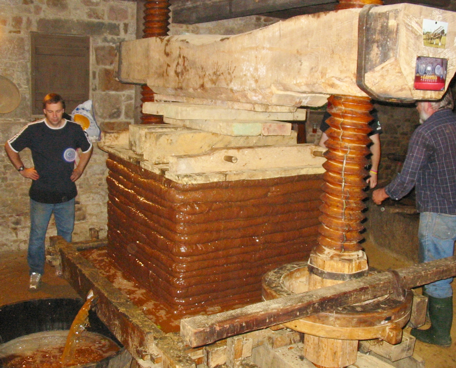 pressing apples for cider; taken at La Faîs'sie d'Cidre, Hamptonne, Jersey 22 October 2006